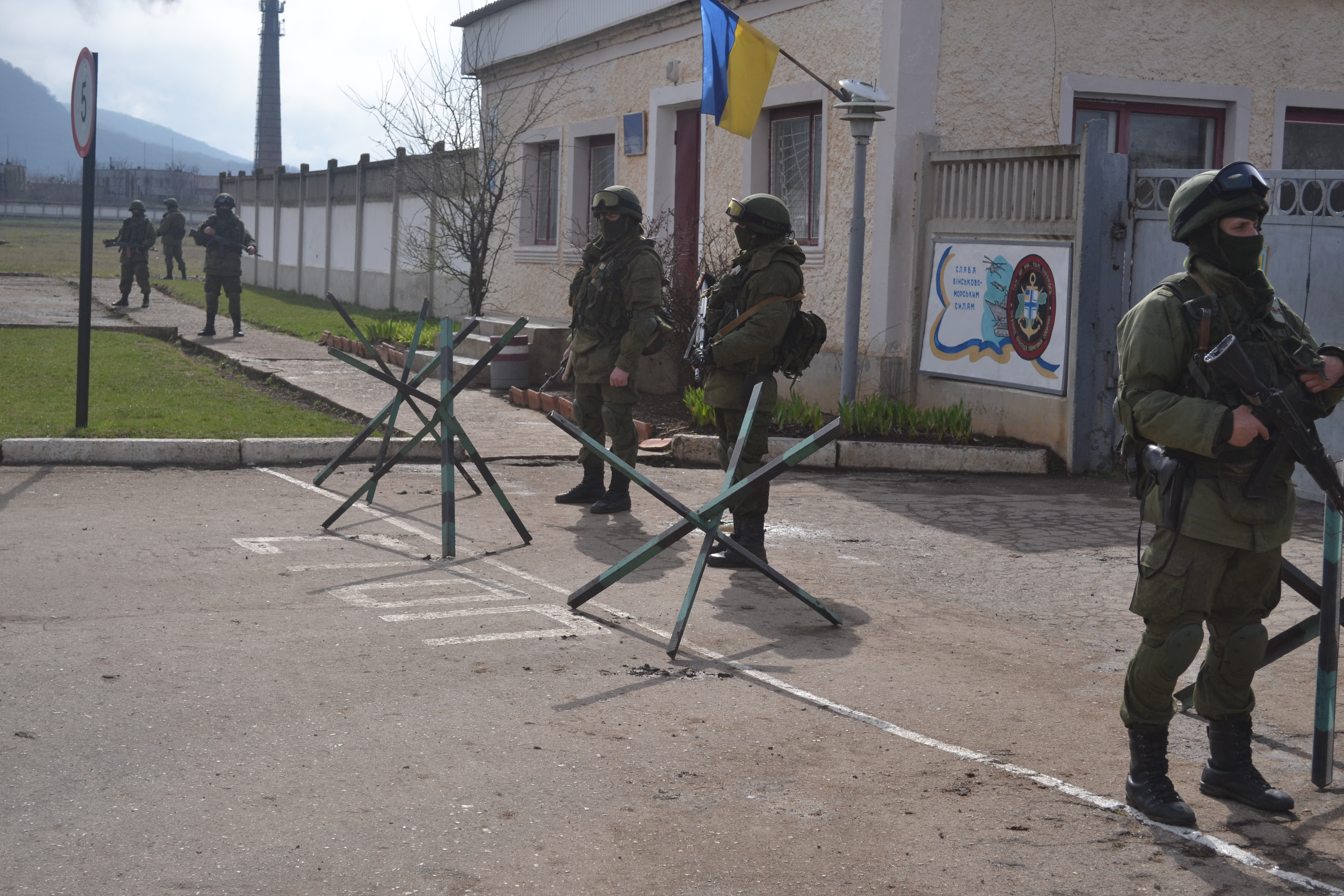 Military base at Perevalne during the 2014 Crimean crisis.